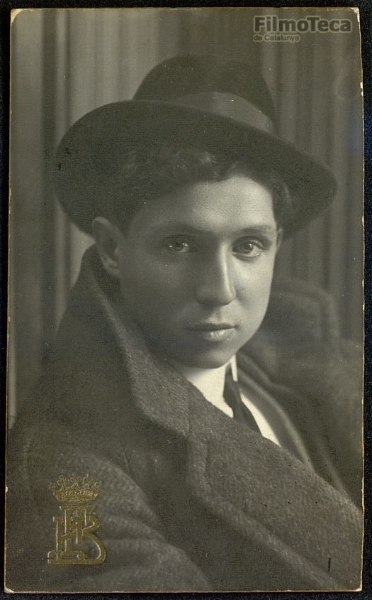 Portrait of Ramon Baños